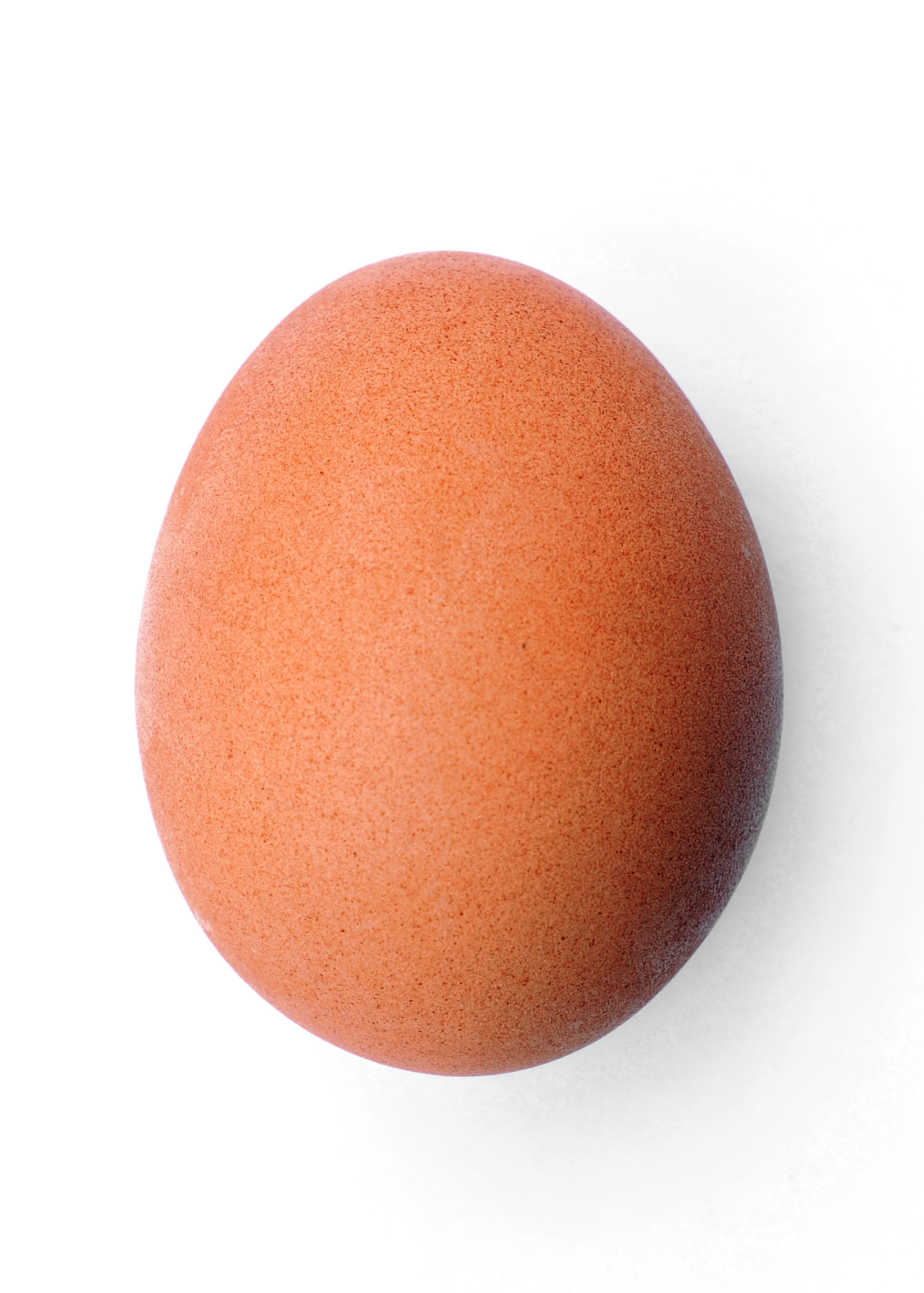 A chicken egg (Gallus gallus domesticus)